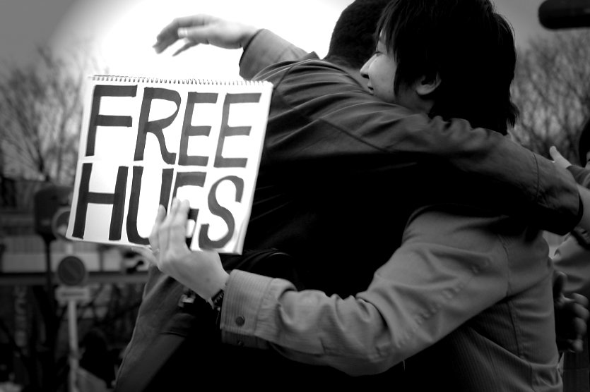 FREE HUGS, in Hibiyakoen, Tokyo Prefecture, 2007